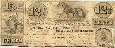 Banknote for 12 & 1/2 cents, Bank of the State of Alabama, signed at Tuscaloosa, 1 September 1838.